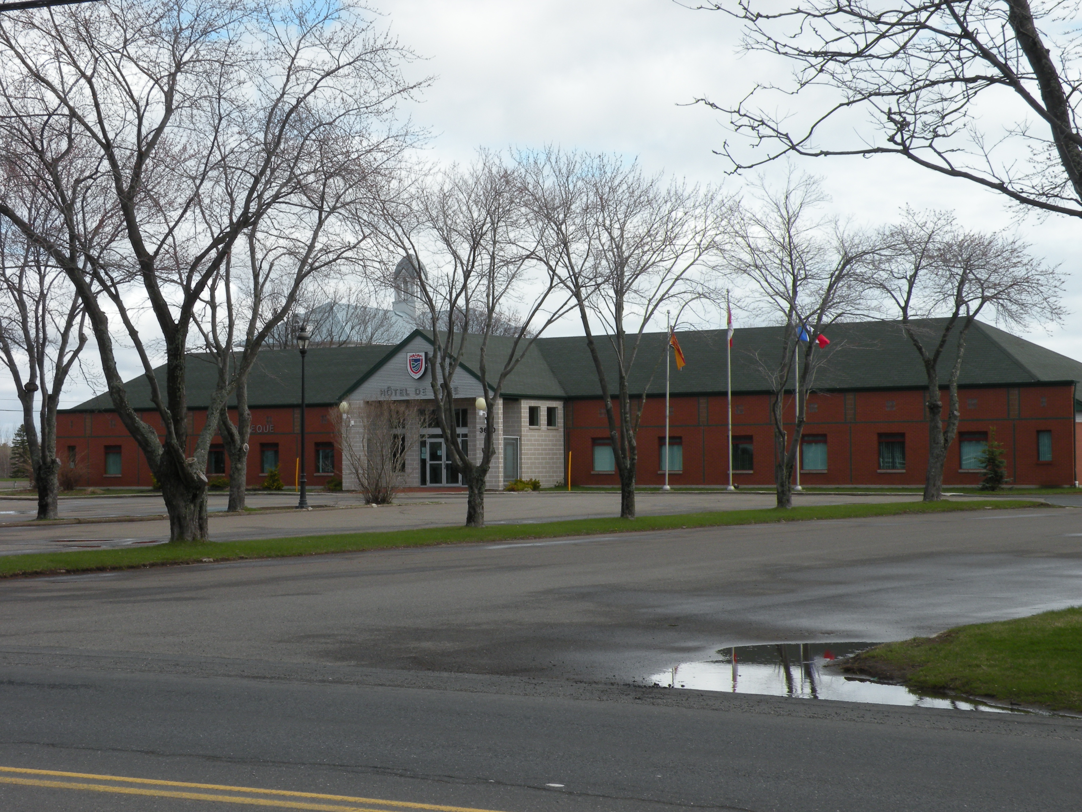 The Tracadie-Sheila town hall.